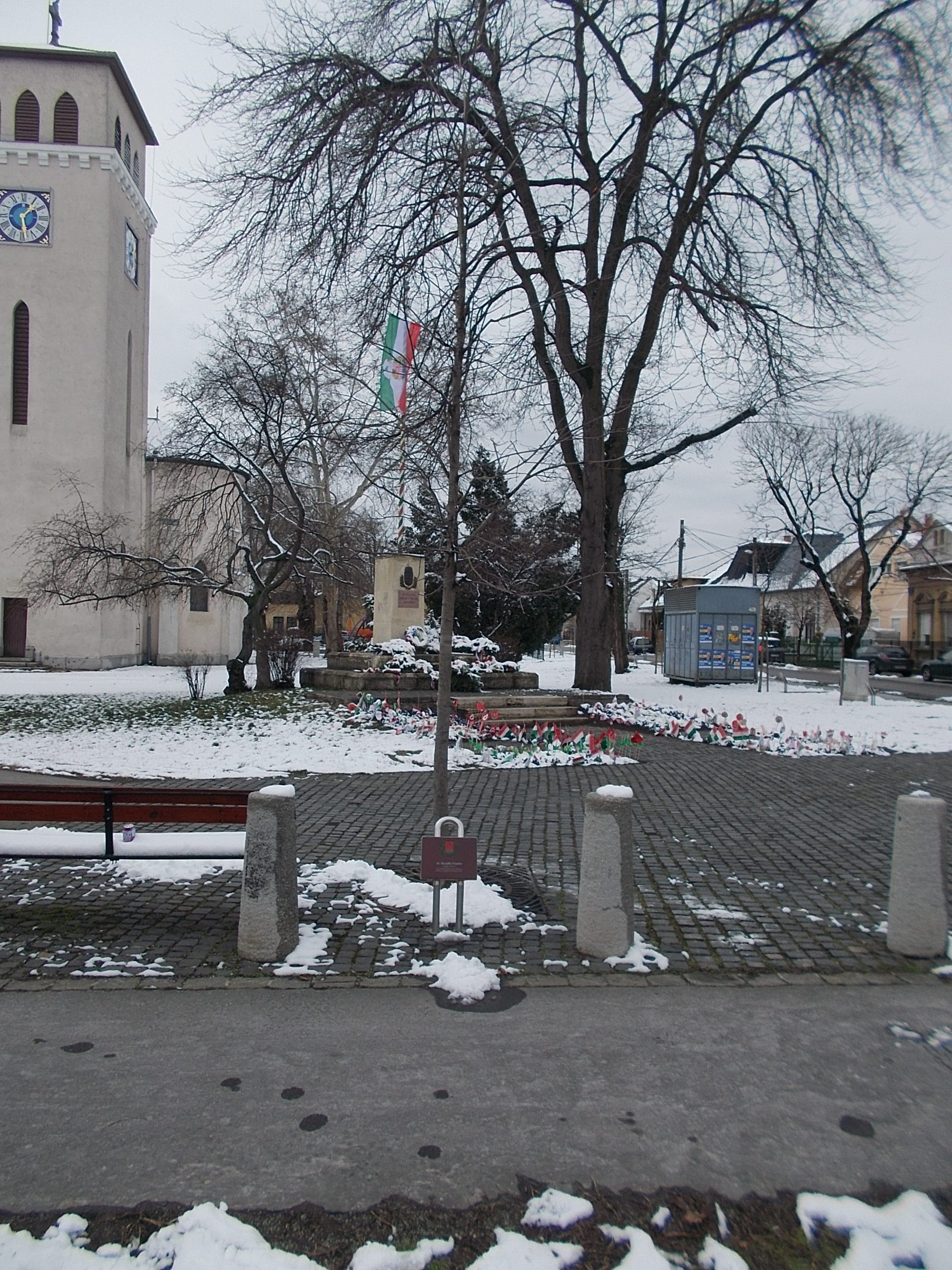 Nándor Bezsilla memorial tree at Pestujhely Local History Memorial line of trees. - Pestújhely Square, Pestújhelyi street side, Pestújhely neighborhood, 15th District of Budapest.